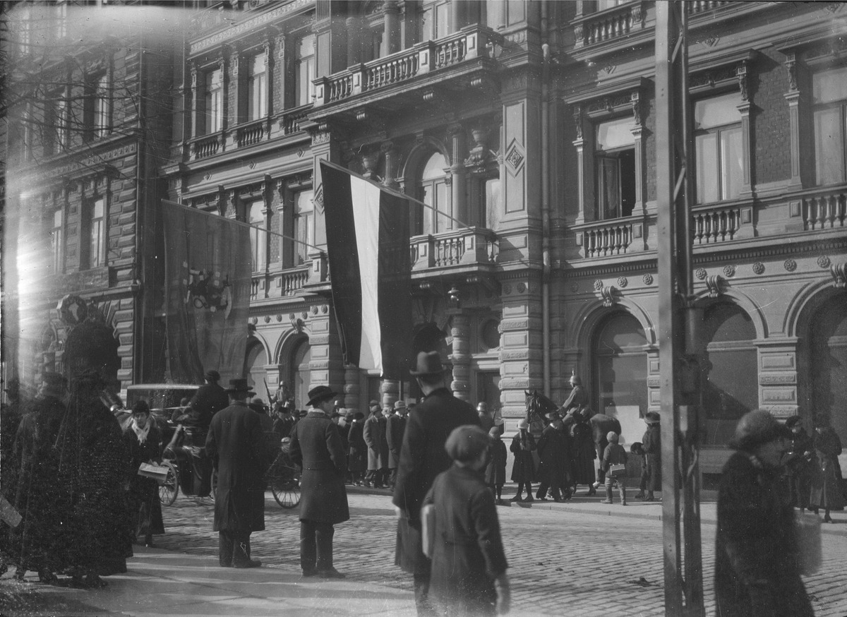 German Baltic Sea Division headquarters in the Hotel Kämp in Helsinki.